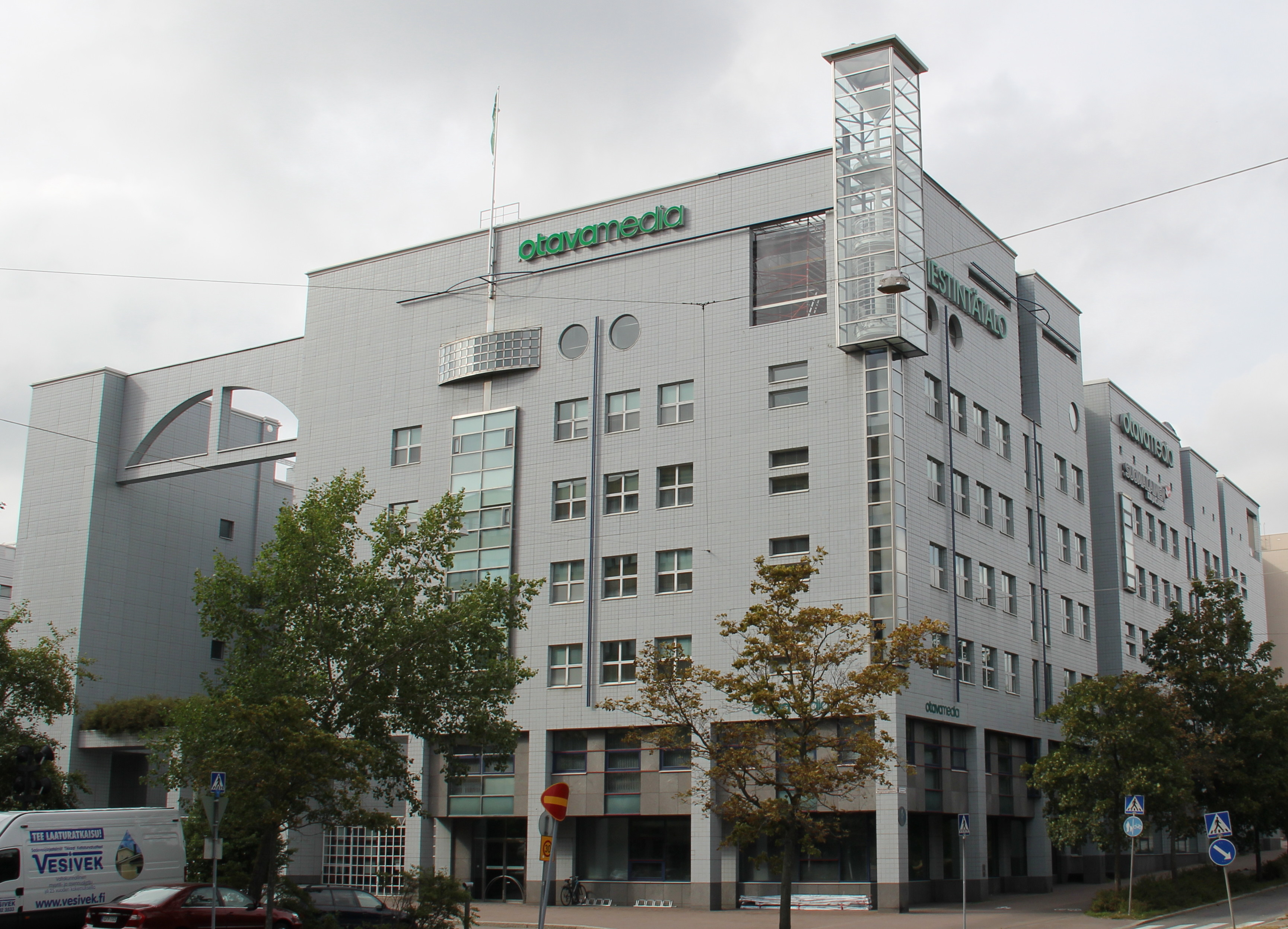 Otavamedia Ltd headquarters in Western Pasila, Helsinki, Finland. Architect Ilmo Valjakka. Completed in 1987. Concrete structure of the year -award in 1986. -Seen from Maistraatinportti.